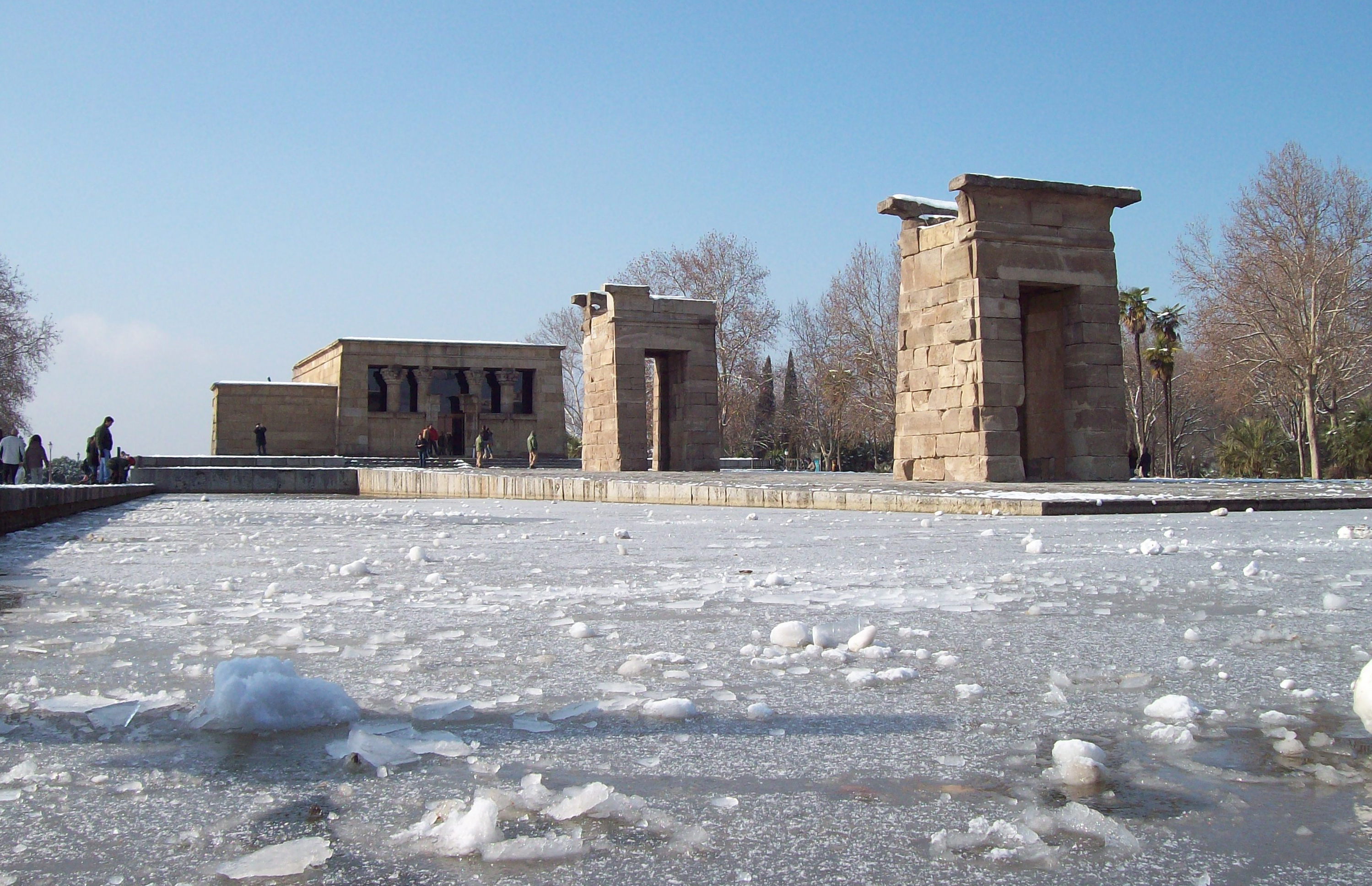 View of Temple of Debod in Madrid (Spain) after a snowfall.